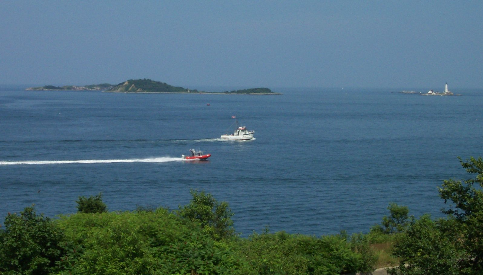 Great Brewster Island (left), Middle Brewster Island (left rear) and Little Brewster Island (right, with lighthouse) in Boston Harbor as viewed from Fort Warren on Georges Island. For more information see the Wikipedia article Boston Harbor Islands.